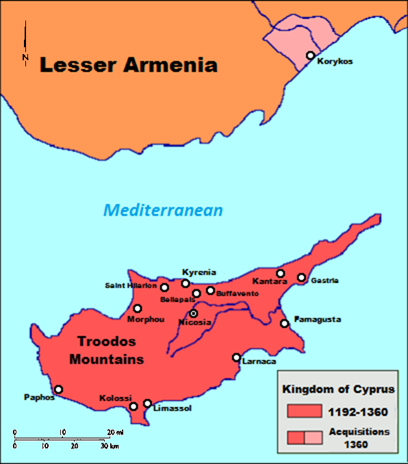 Kingdom of Cyprus (1360)